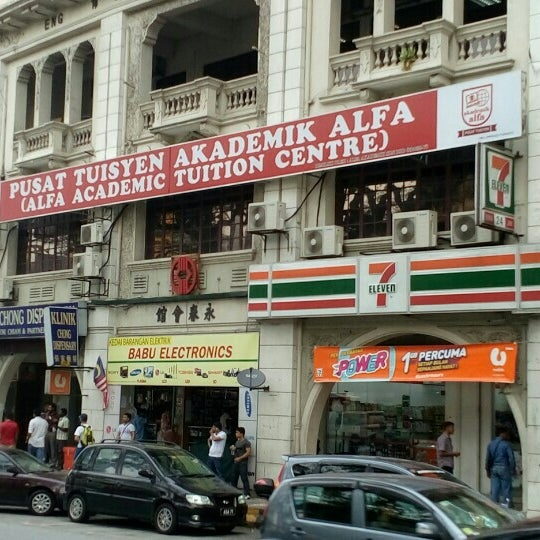 A cram school in Malaysia